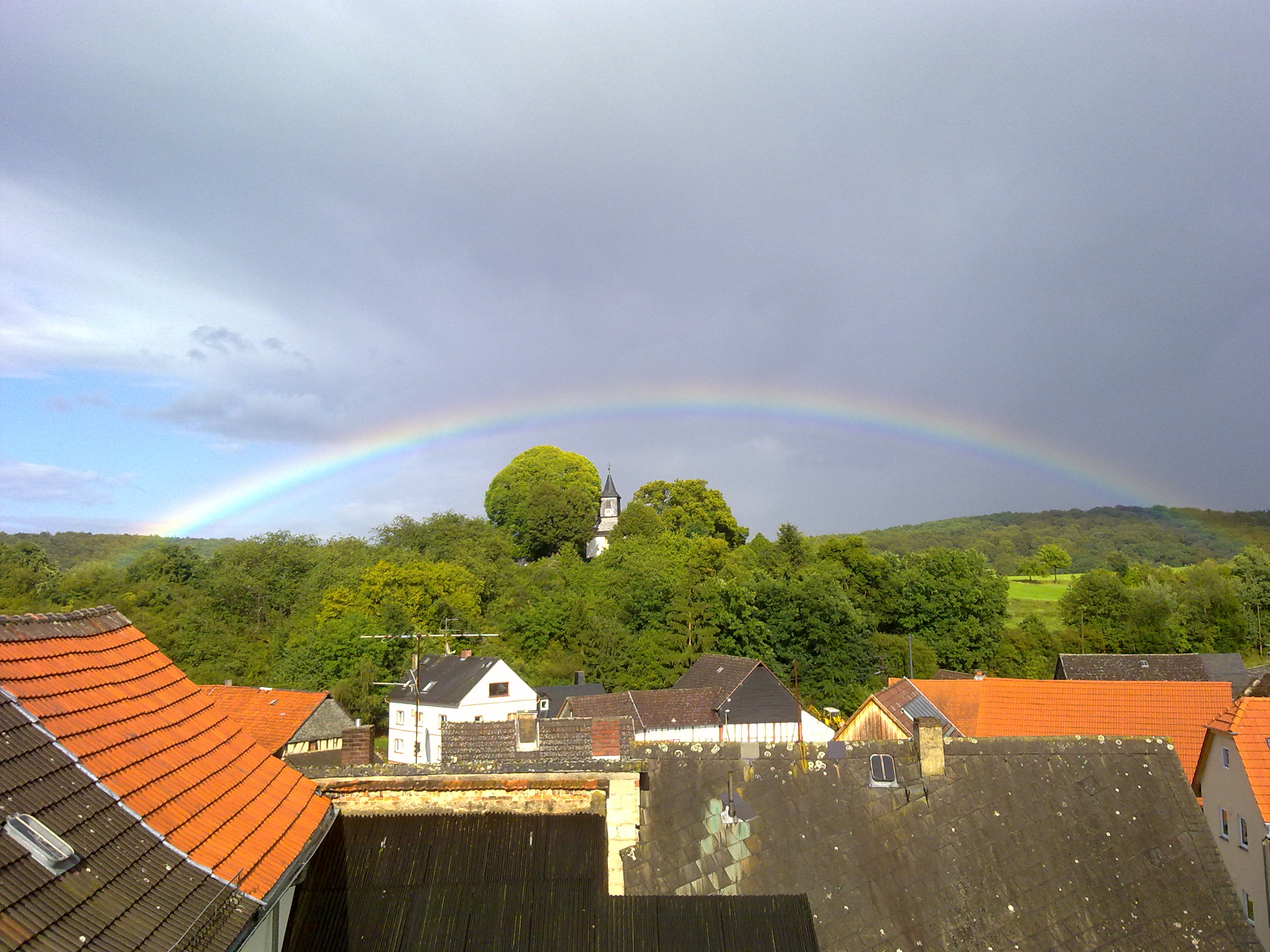 the chapel of the small village Oberlauken